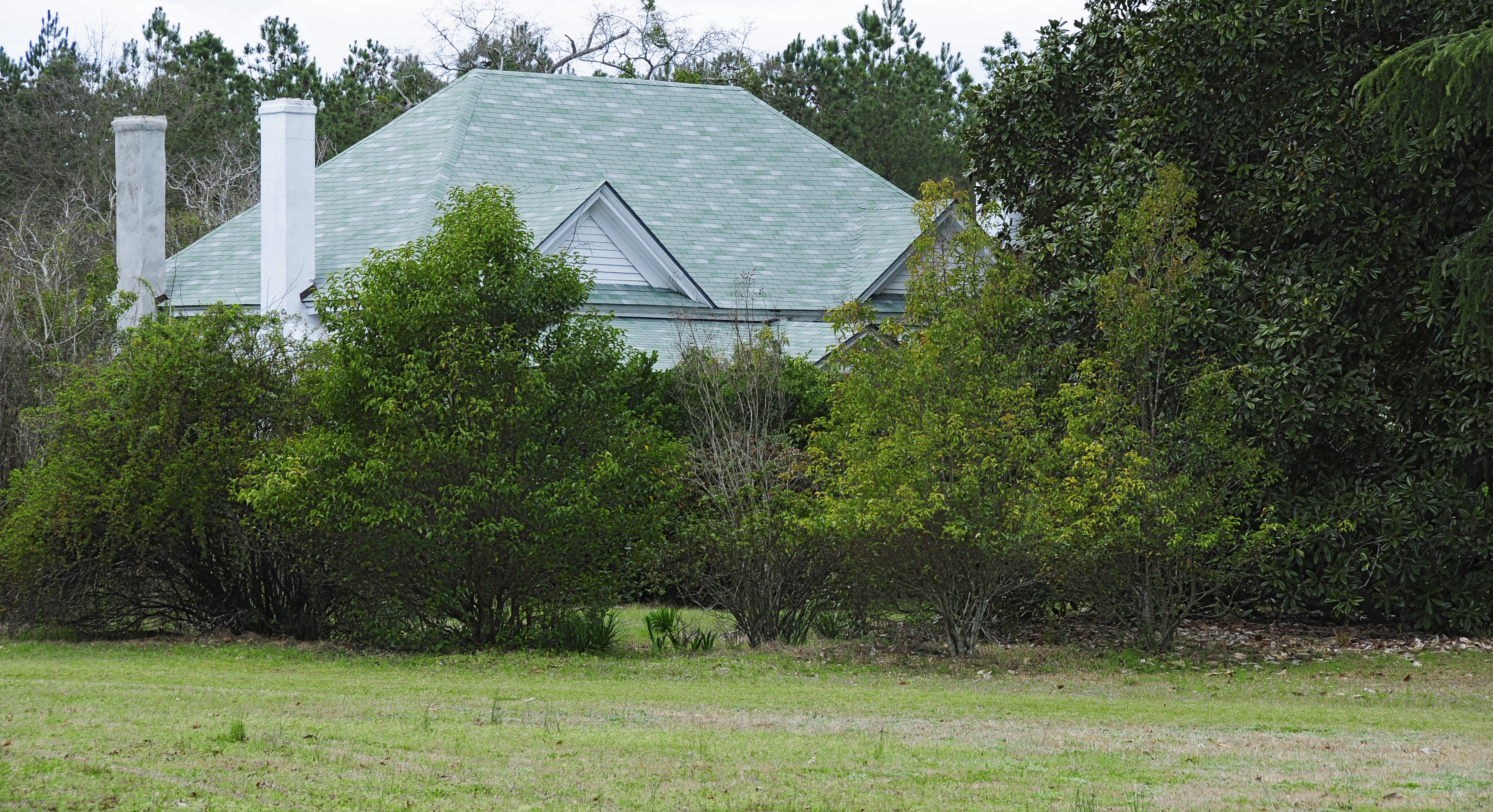 Marshfield